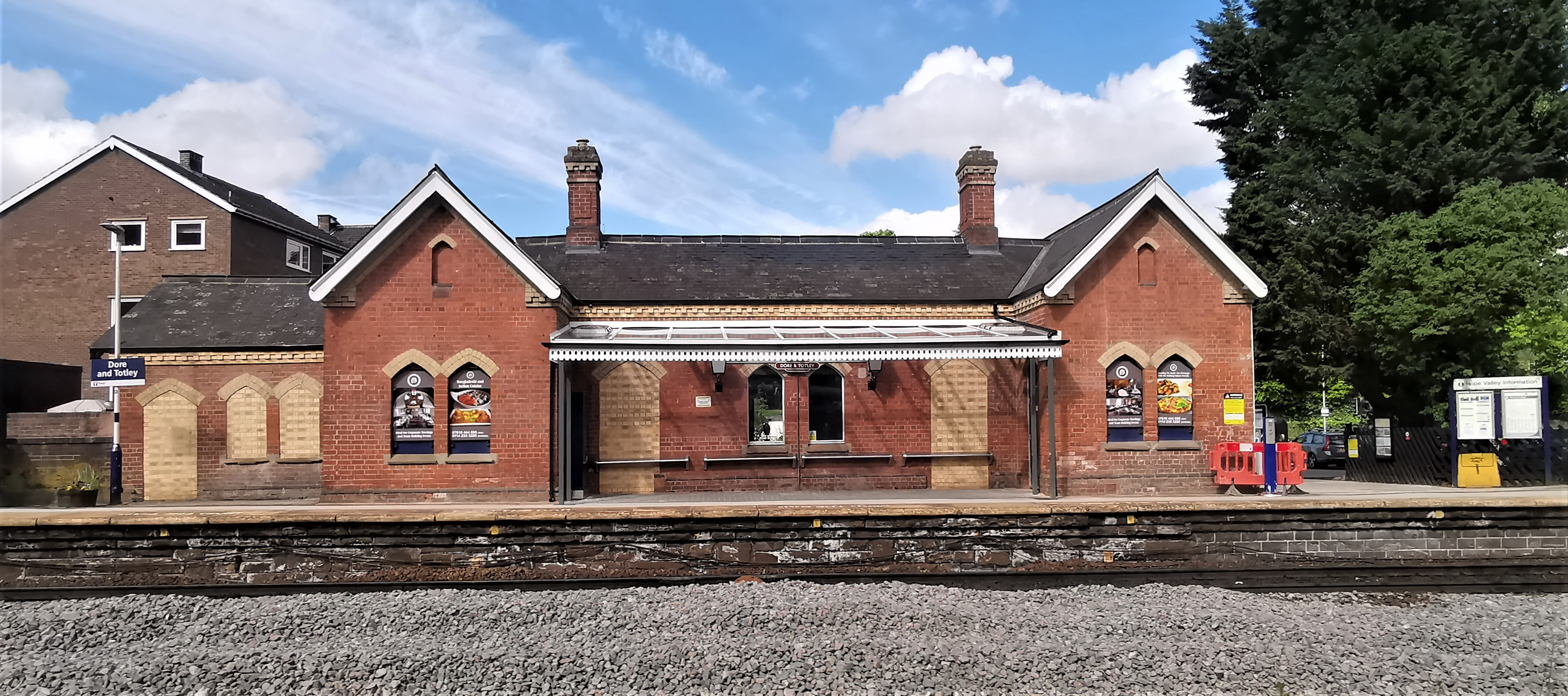 Dore and Totley Station in May 2019 after completion of new canopy added to original station building that dates to 1872.